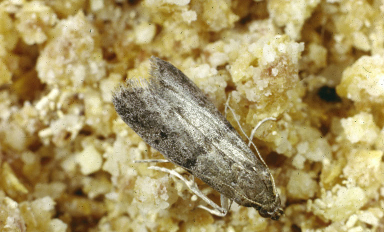 Ephestia elutella adult